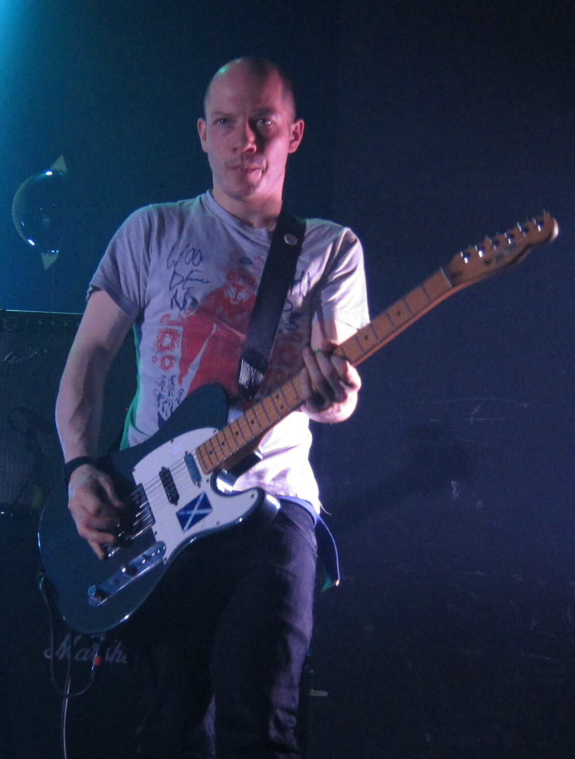 Stuart Braithwaite performing with Mogwai at the Tavastia Club in Helsinki, Finland on April 5, 2011